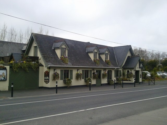 Pub, Batterstown, Co Meath, near to Batterstown and The Black Bush, Meath, Ireland. Pretty public house in Batterstown, Co Meath.